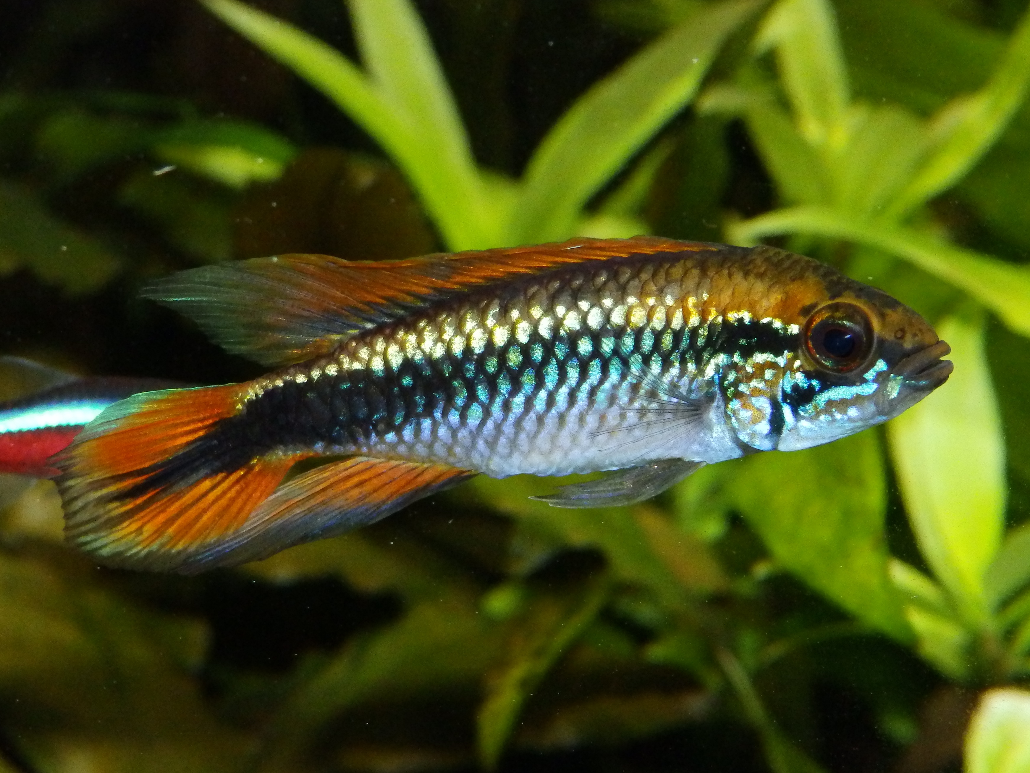 male apistogramma agassizii in aquarium